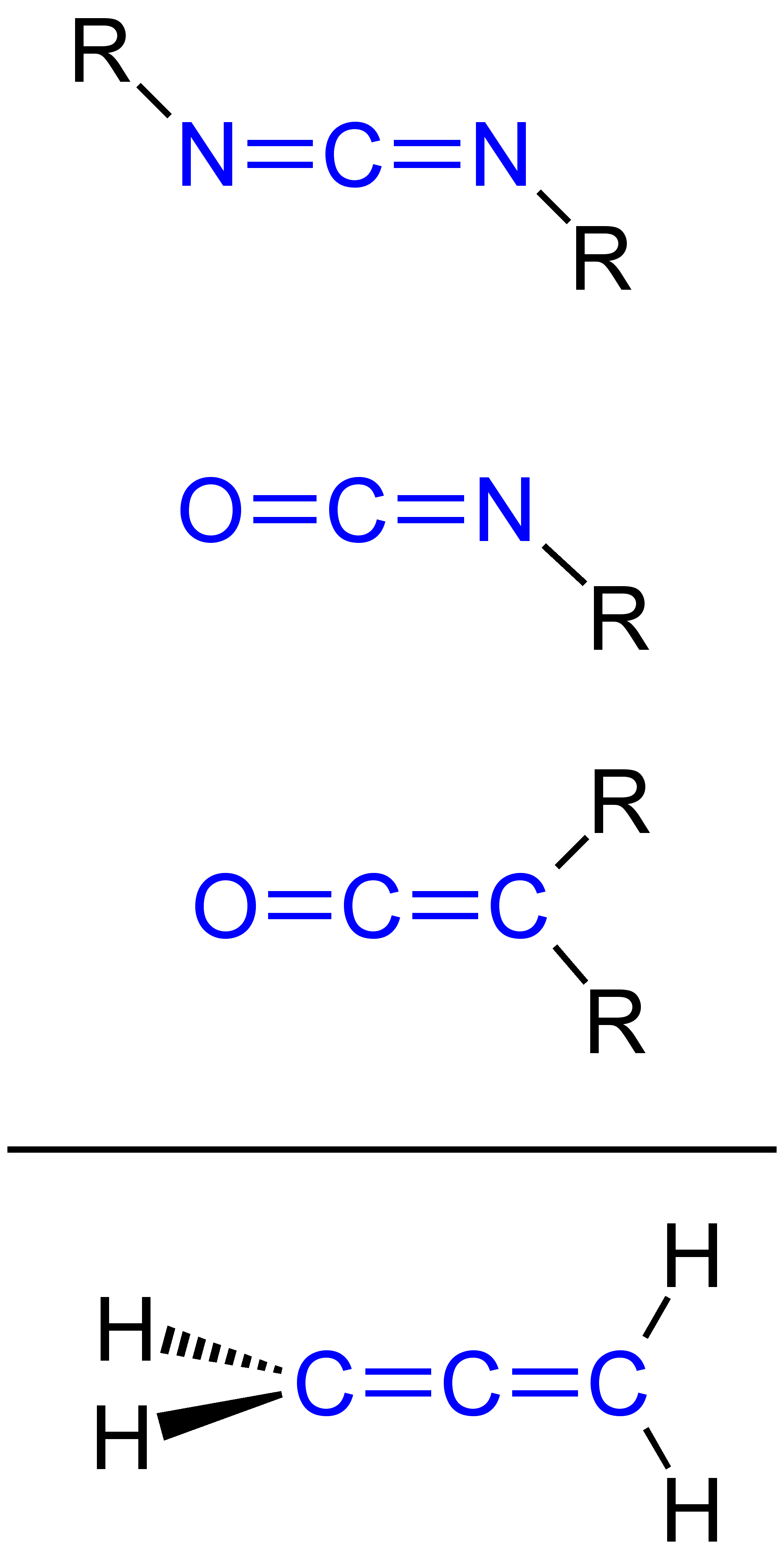 Heterocumulenes_General_Formulae